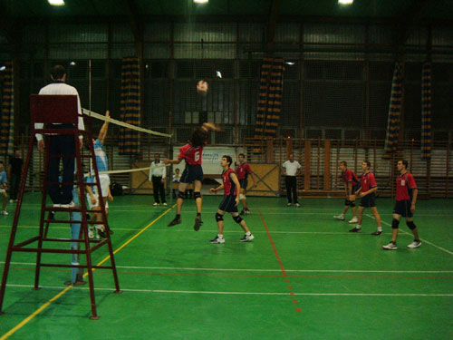 Volleyball party of Dorog in sporthall